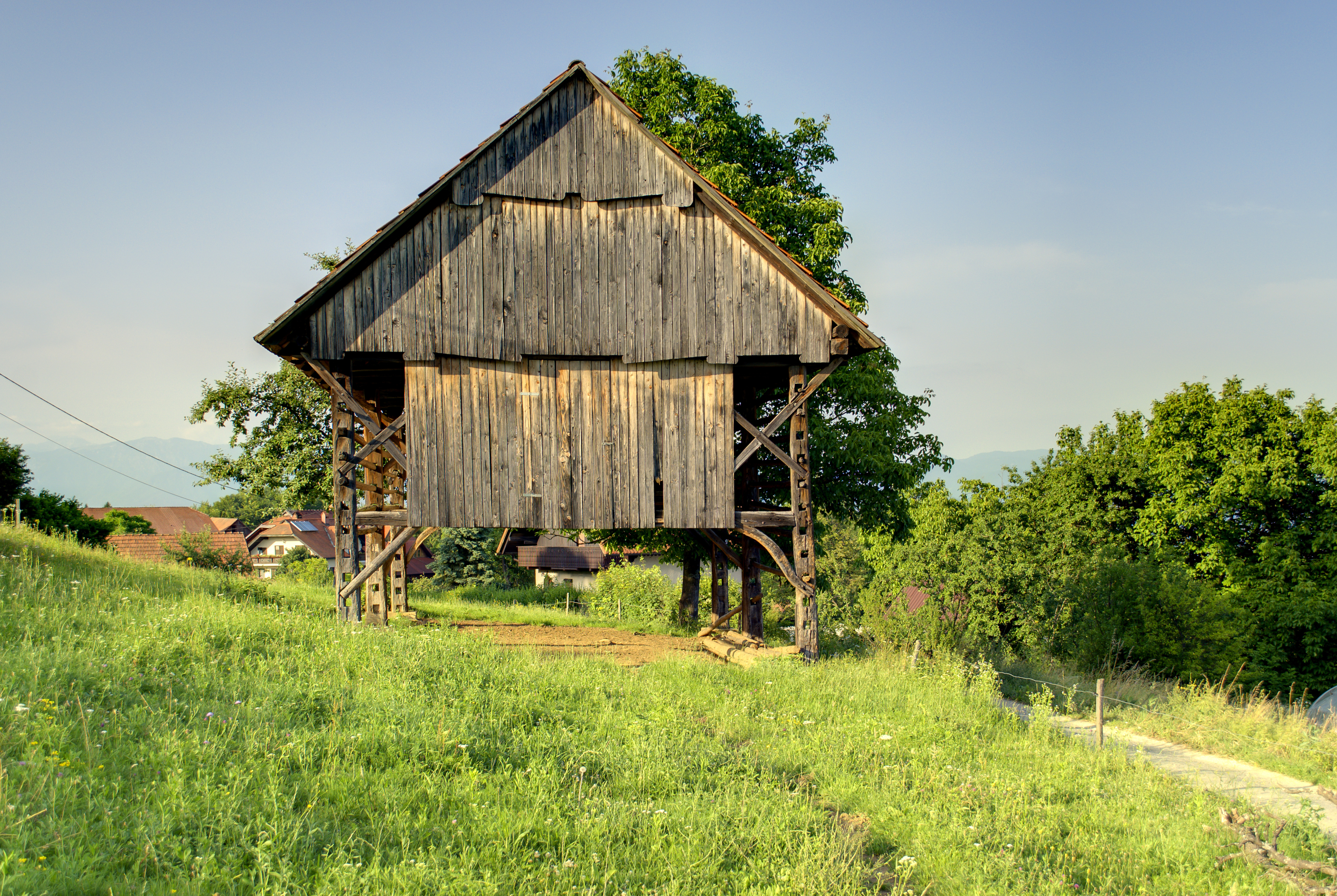 Toplar Hayrack in Dobeno